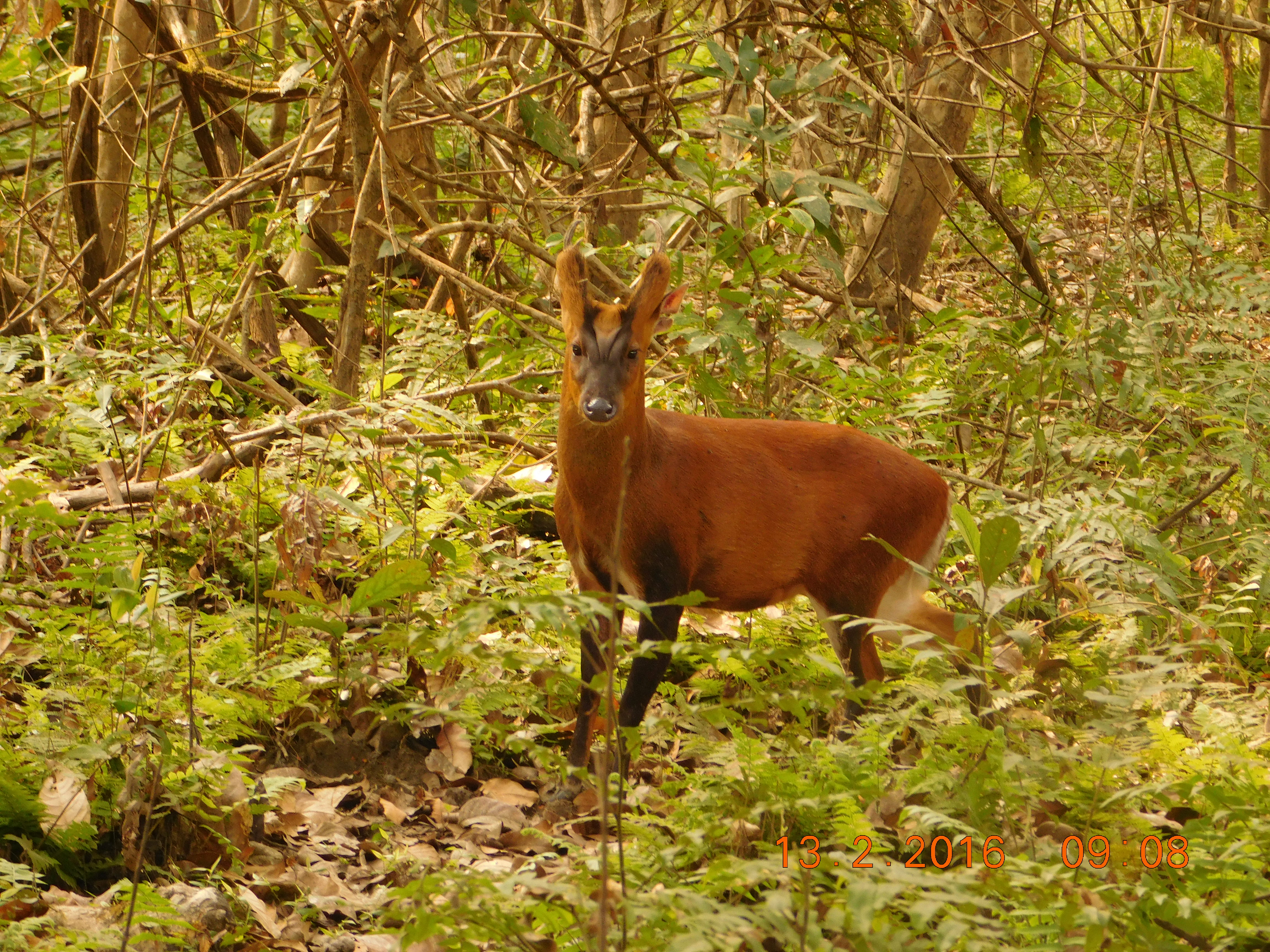 a colourful deer never seen before